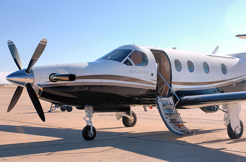 A Pilatus PC-12 parks on Cannon's flightline Jan. 8 and is the first of a planned 10 aircraft to be assigned to the 318th Special Operations Squadron over the next four years.